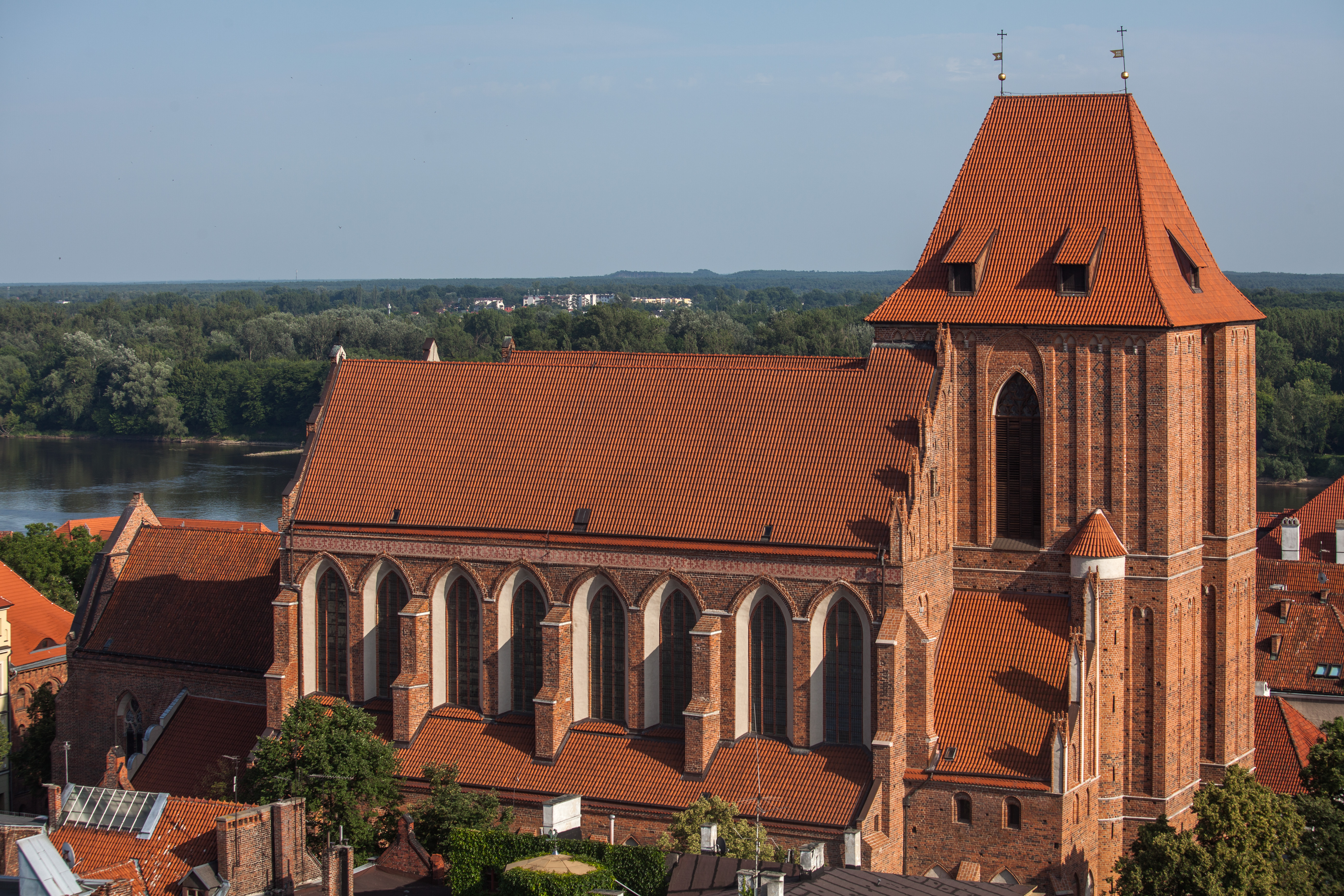 View on St Johns' Cathedral in Toruń from Old Town Hall tower.